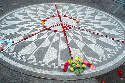 Strawberry Fields memorial in Central Park, New York City